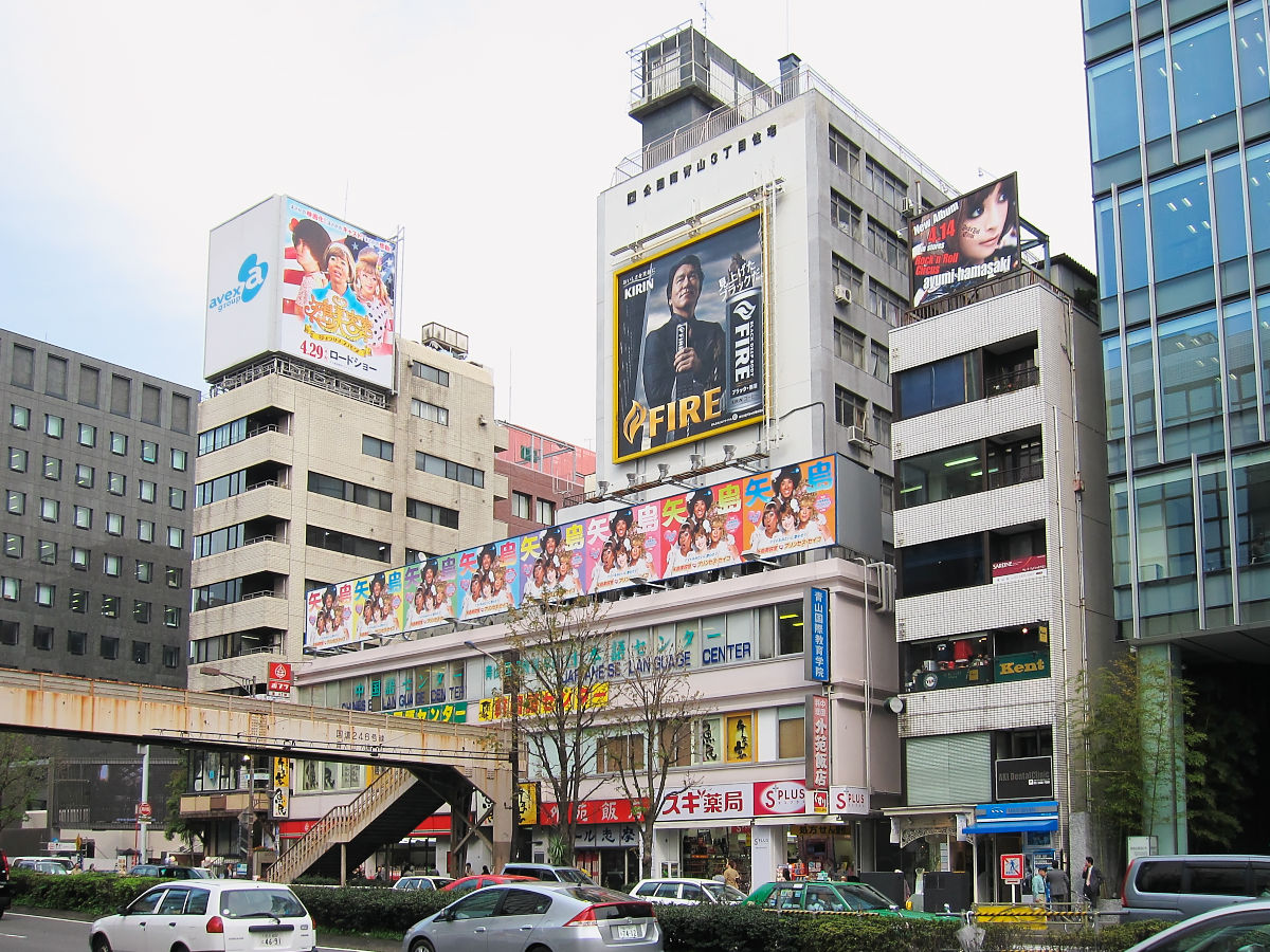 A 1960s apartment house with shopping floor in Aoyama, Tokyo.